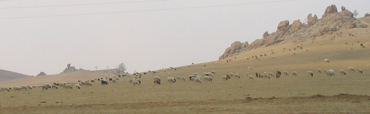 Sheep grazing in (or near) Terelj National Park, Mongolia. Note this photo was taken in spring, so there is not much grass yet.